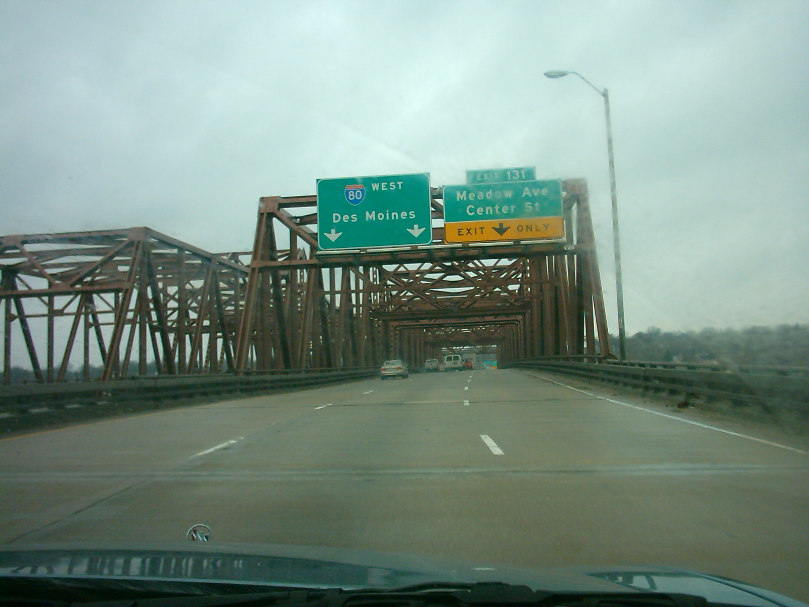 Interstate 80 approaching the Des Plaines River Bridge from the east in Joliet.